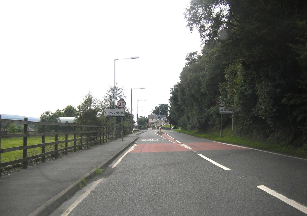 A 76 entering Kirkonnell